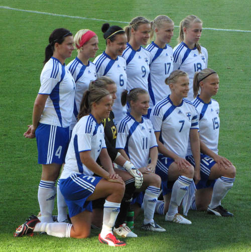 Starting lineup of Finland women's national team in Finland - Northern Ireland friendly match. Upper row (from left): Sanna Valkonen, Miia Niemi, Tiina Salmén, Laura Österberg Kalmari, Sanna Talonen, Linda Sällström Lower row (from left): Jessica Julin, Tinja-Riikka Korpela, Susanna Lehtinen, Anne Mäkinen, Maija Saari